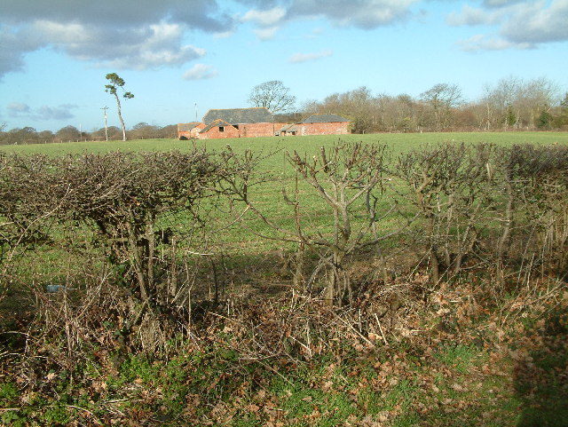 Hoopers Hill, Downton, Hampshire. This photo of farmland was taken from Angel Lane.